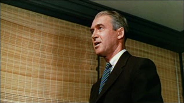 Screenshot from the original 1958 theatrical trailer for the film VertigoFrame taken from MPEG4. Note: This version of the original 1958 theatrical trailer is of significantly lower quality than the 1996 restoration theatrical trailer.